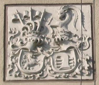 Coats of arms at Manor house, built around 1800, in Löwenbruch. The village Löwenbruch is a part of the town Ludwigsfelde in the district Teltow-Fläming, state Brandenburg, Germany.